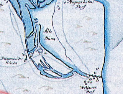 Vecāķi shown as Wetsanck Dorf (German name) on map 1701